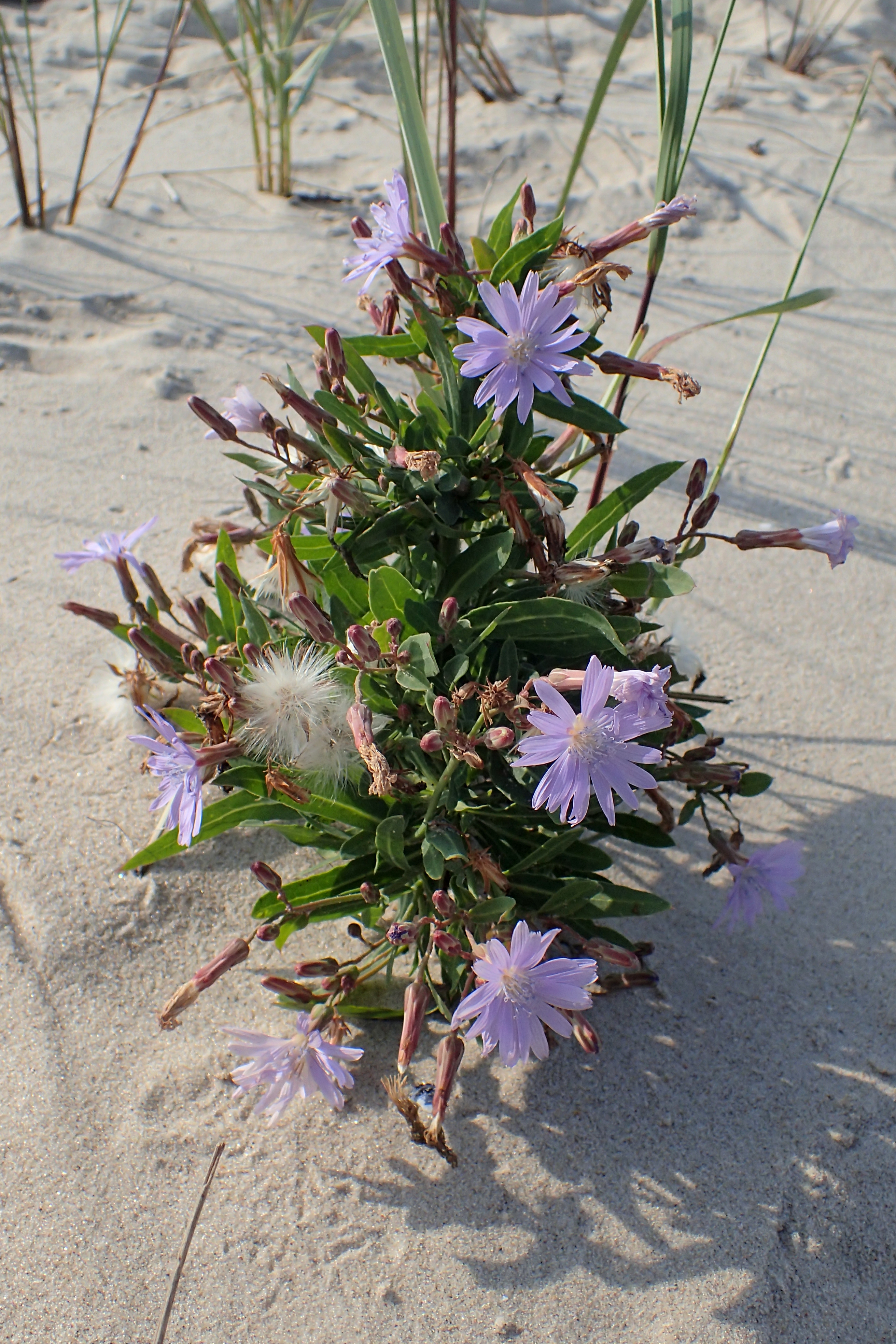 Lactuca tatarica on the beach in Swinoujście Warszów, Baltic Sea, Poland